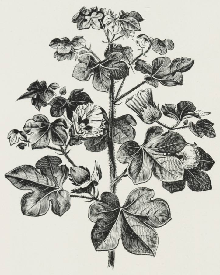 Drawing of a cotton plant.